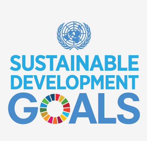 United Nations Sustainable Development Logo fixed. Other information Fixed version of this image: File:Sustainable Development Goals Logo.jpg (I cropped and colored white bar on side)